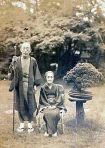 Japanese Prime Minister Keigo Kiyoura and his wife Tōko.